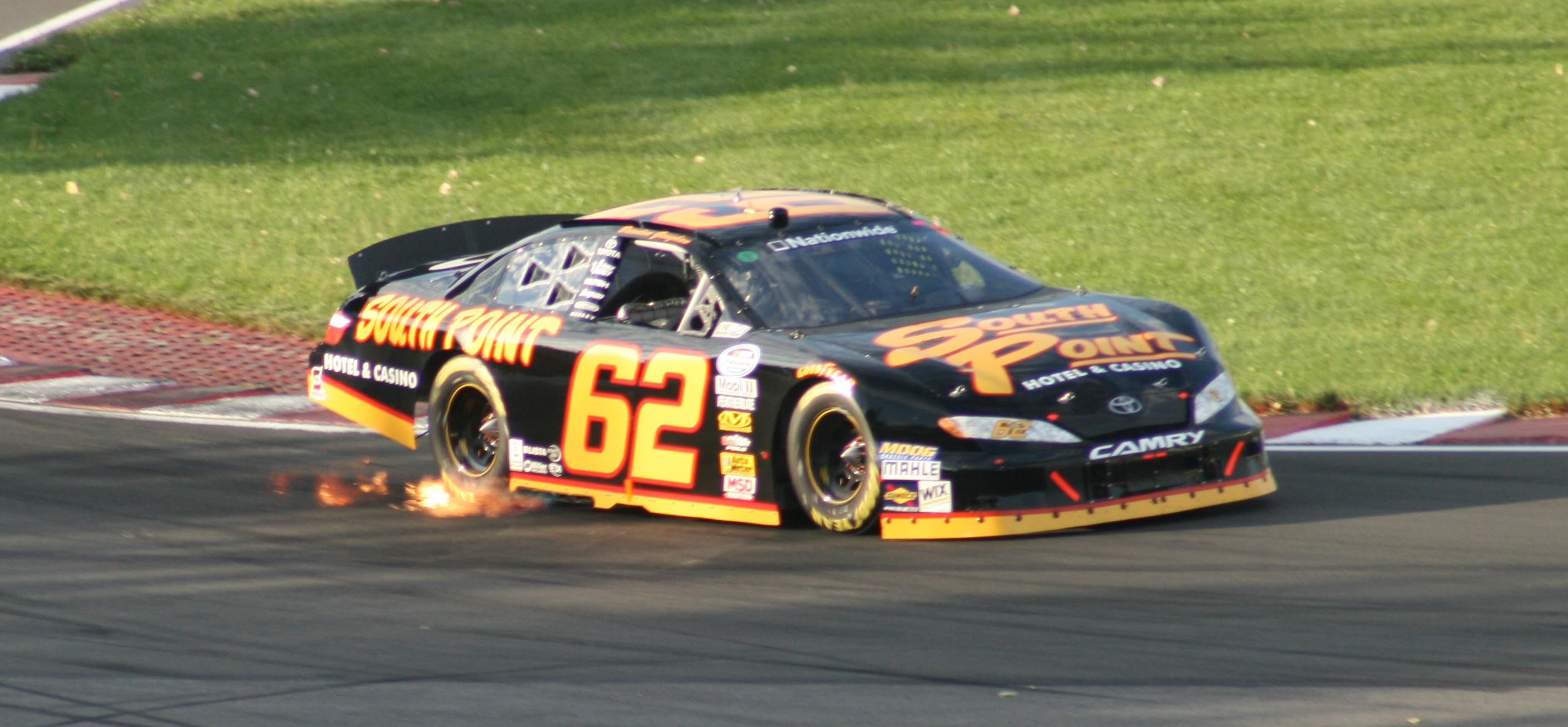 Brendan Gaughan in the qualification for the 2010 NAPA Auto Parts 200 at the Circuit Gilles Villeneuve in Montreal.